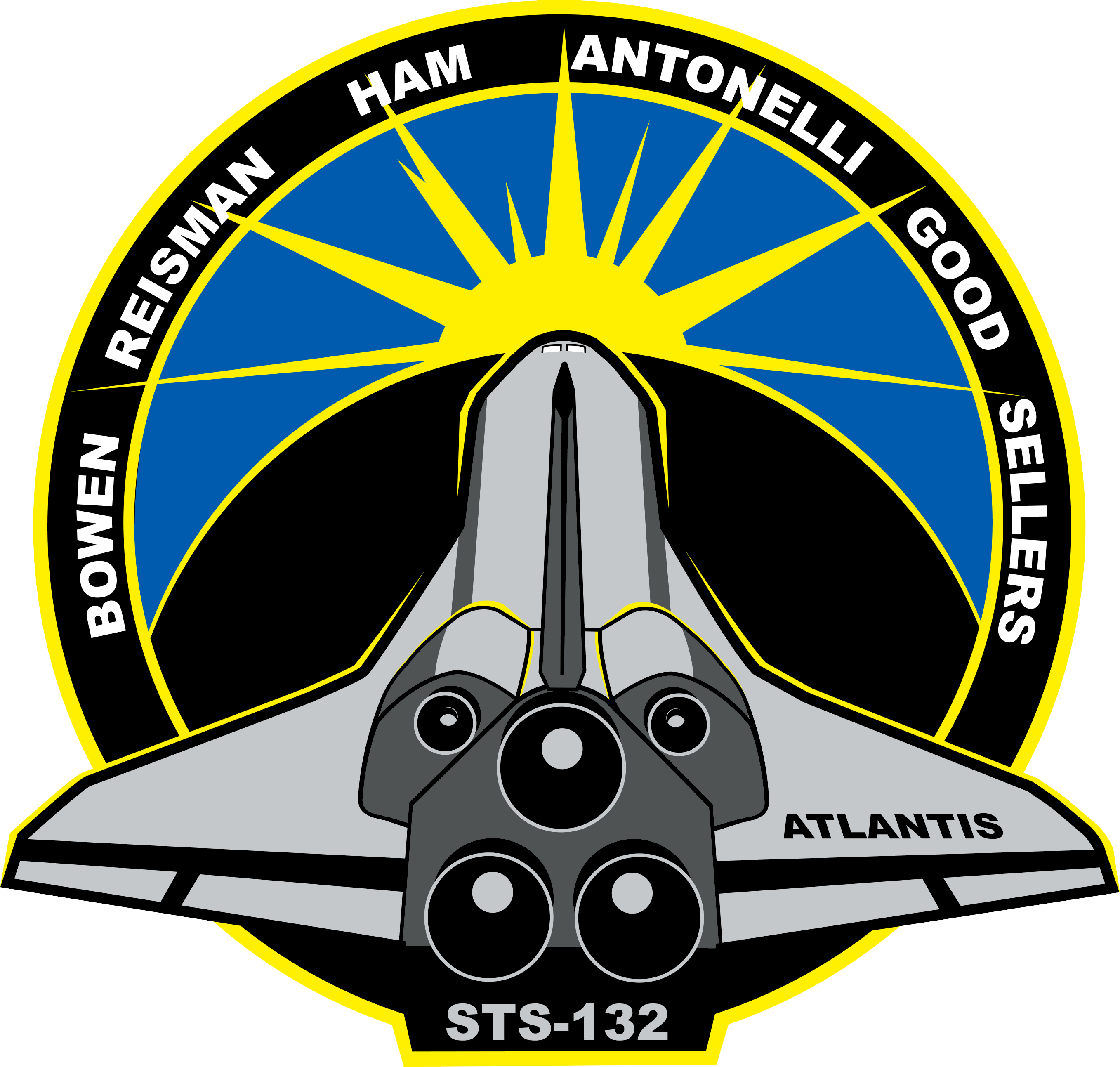 The STS-132 mission will be the 32nd flight of the space shuttle Atlantis. The primary STS-132 mission objective is to deliver the Russian-made MRM-1 (Mini Research Module) to the International Space Station (ISS). Atlantis will also deliver a new communications antenna and a new set of batteries for one of the ISS solar arrays. The STS-132 mission patch features Atlantis flying off into the sunset as the end of the Space Shuttle Program approaches. However the sun is also heralding the promise of a new day as it rises for the first time on a new ISS module, the MRM-1, which is also named Rassvet, the Russian word for dawn.